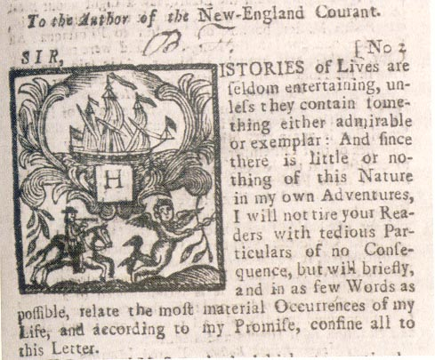 New England Courant (Published by James and Benjamin Franklin, 1721–1726). Franklin’s own file of the paper is now in the British Library; in it he wrote the authors’ initials beside anonymous articles. His own initials, “B.F.,” here mark the third “Silence Dogood” essay.